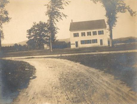 Town Hall, Middleton, New Hampshire. Originally built in 1795 as a meetinghouse, it was moved, raised and enlarged in 1812.